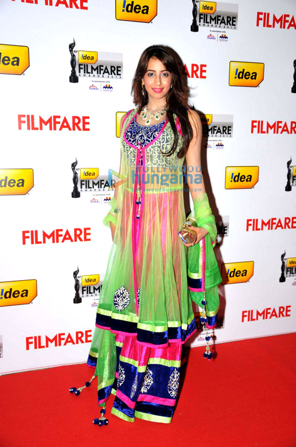 Kannada actress Sanjjanaa at the 60th Filmfare Awards South